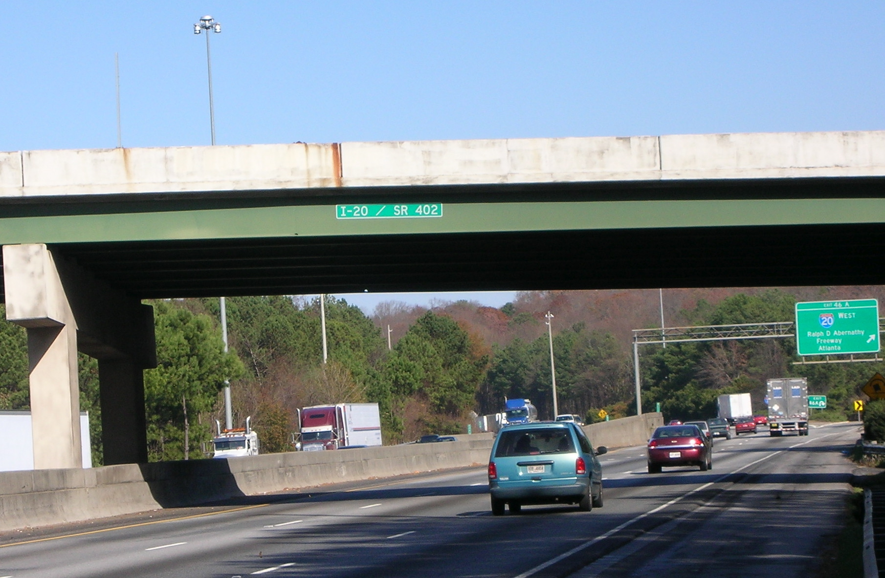 Identification sign of a bridge in the I-285/I-20 intersection east of Atlanta, GA, bearing the I-20 and SR 402 labeling